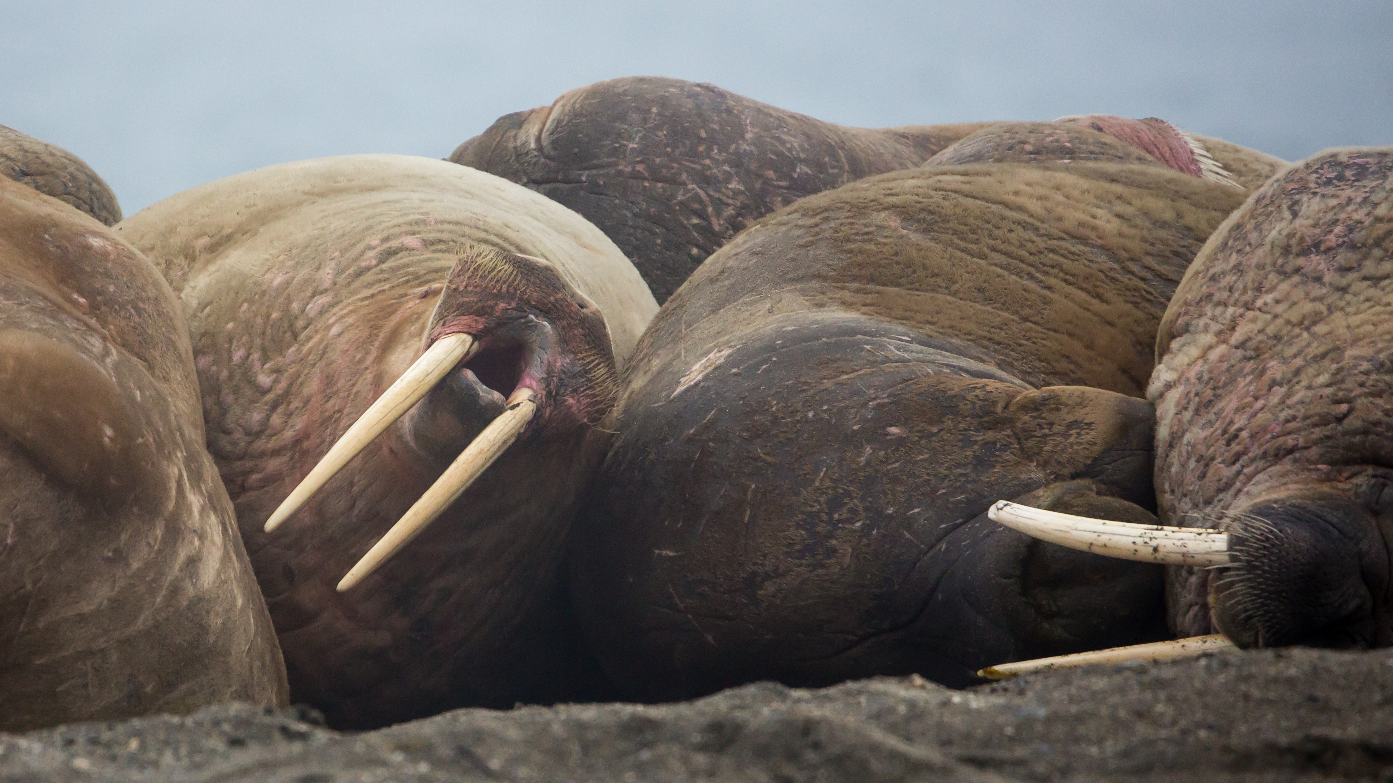 A pod of approximately 20 walruses ( Odobenus rosmarus) resides on Wahlberøya in Hinlopenstrait, Svalbard. They tend to rest side by side at the shore of the small island.